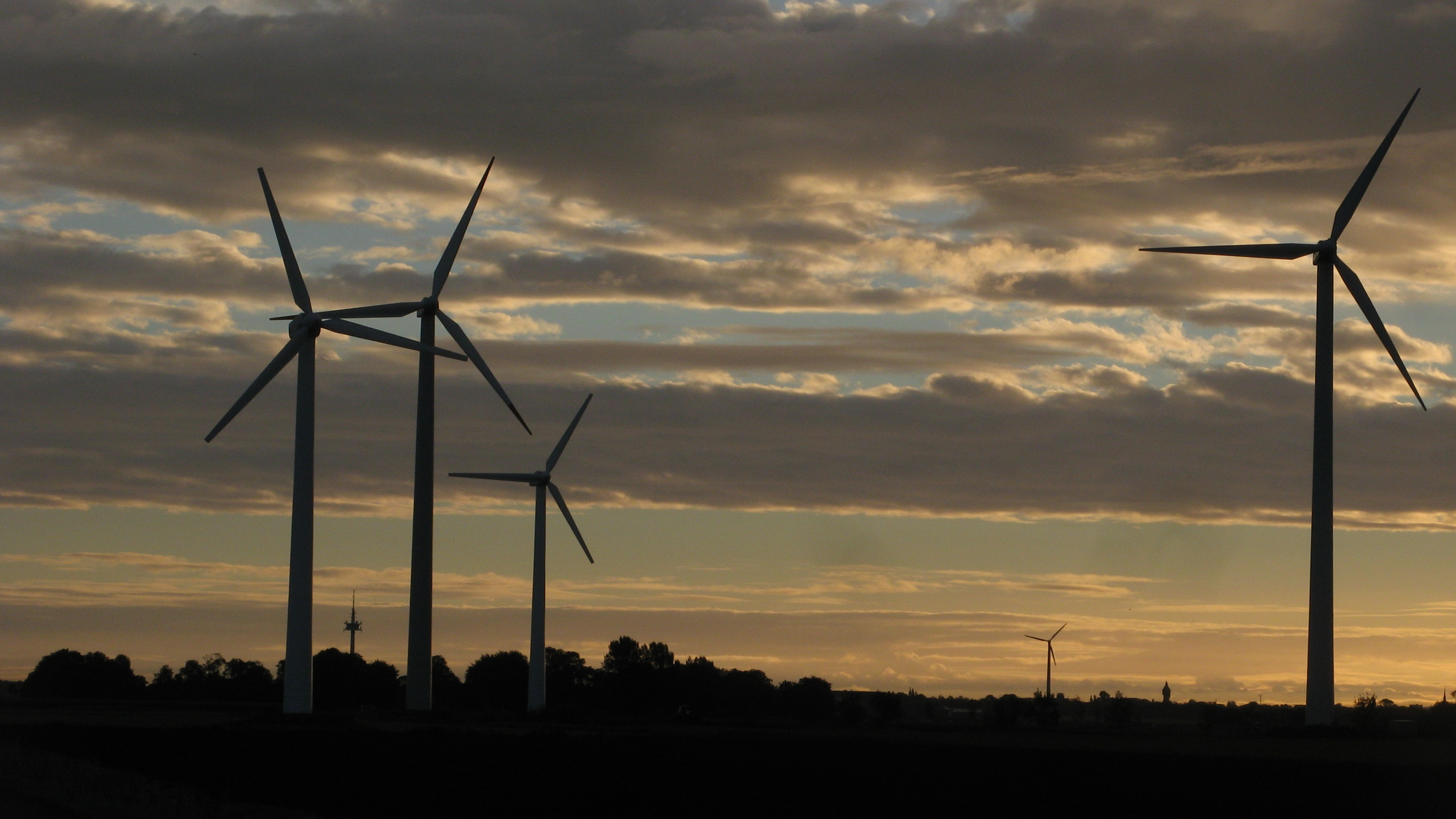 Wind turbines Neuenkirchen and TV-Tower Heide, Schleswig-Holstein, Germany